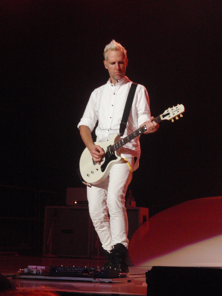 No Doubt performing during the Summer Tour 2009 in General Motors Place in Vancouver.